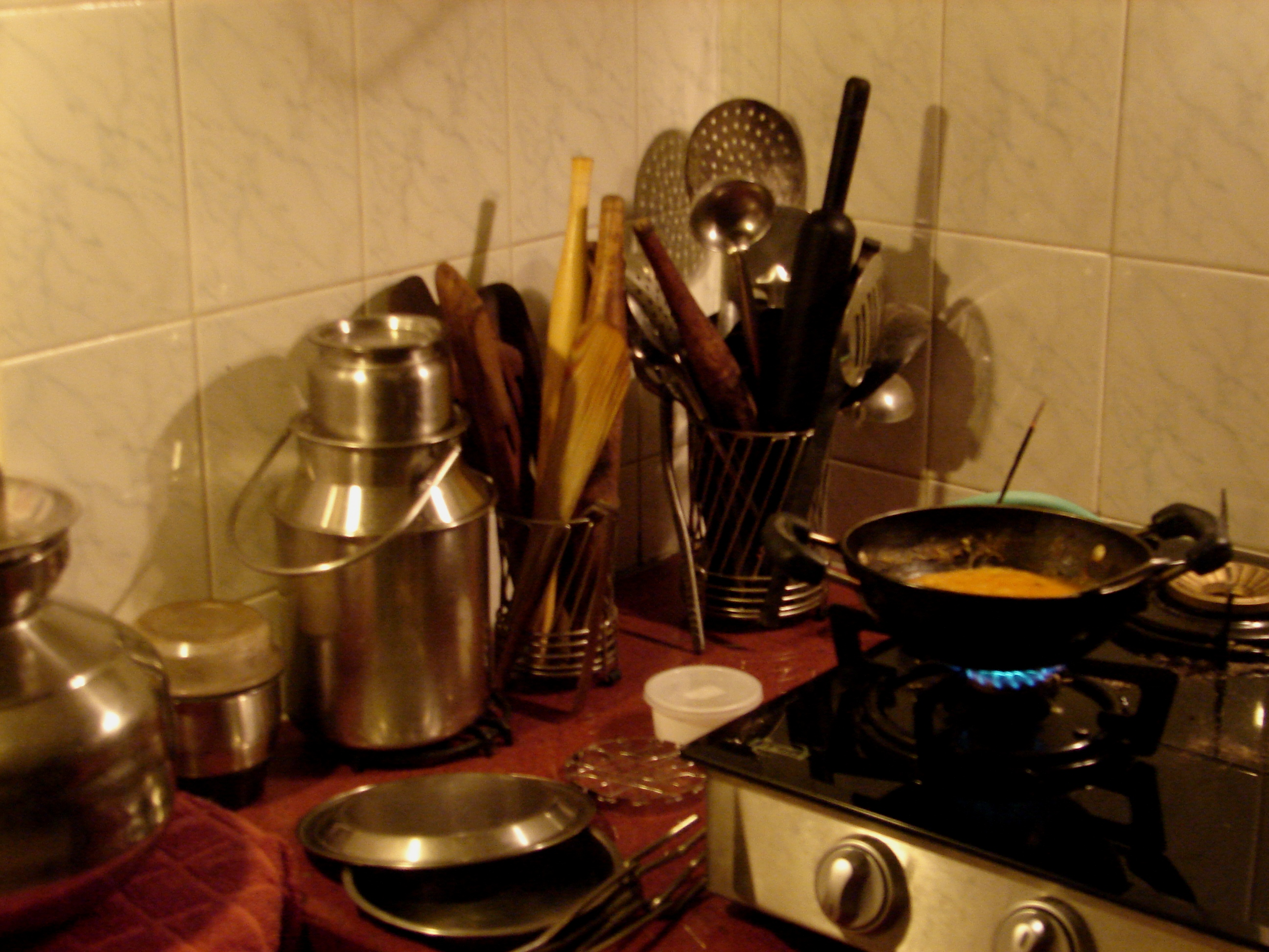 Indian Kitchen in a Maharashtrian Household